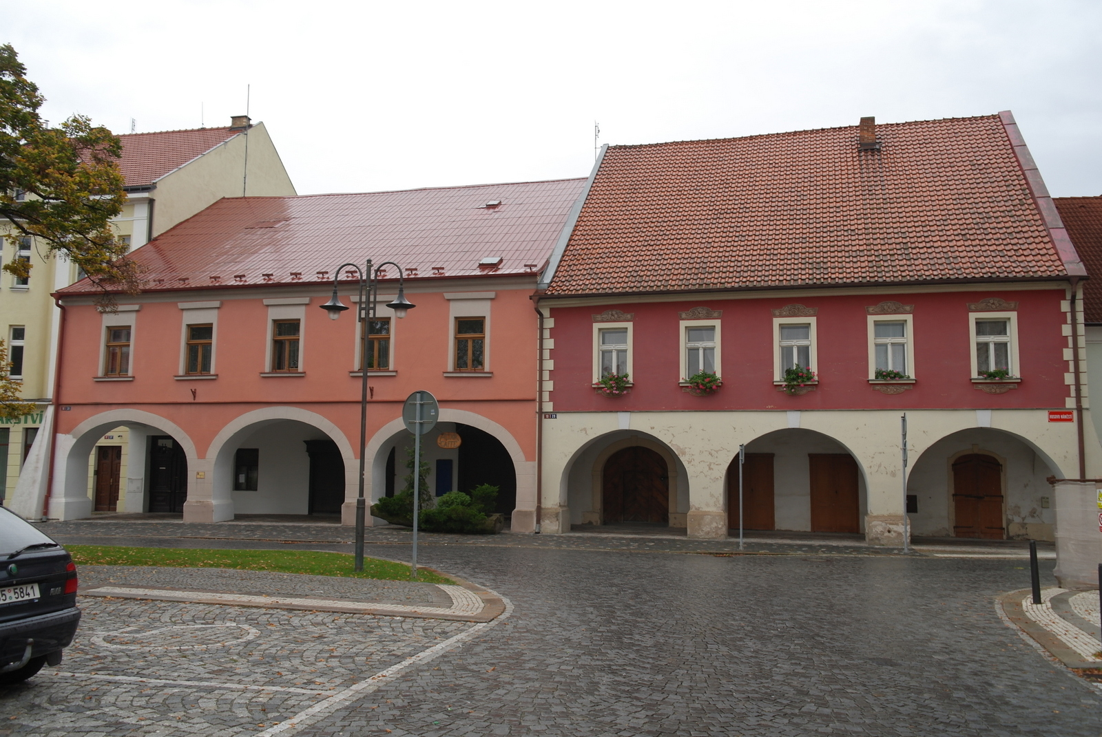 Burgher's House (Benátky nad Jizerou), Husovo sq. 58/8, Benátky nad Jizerou on the right hand